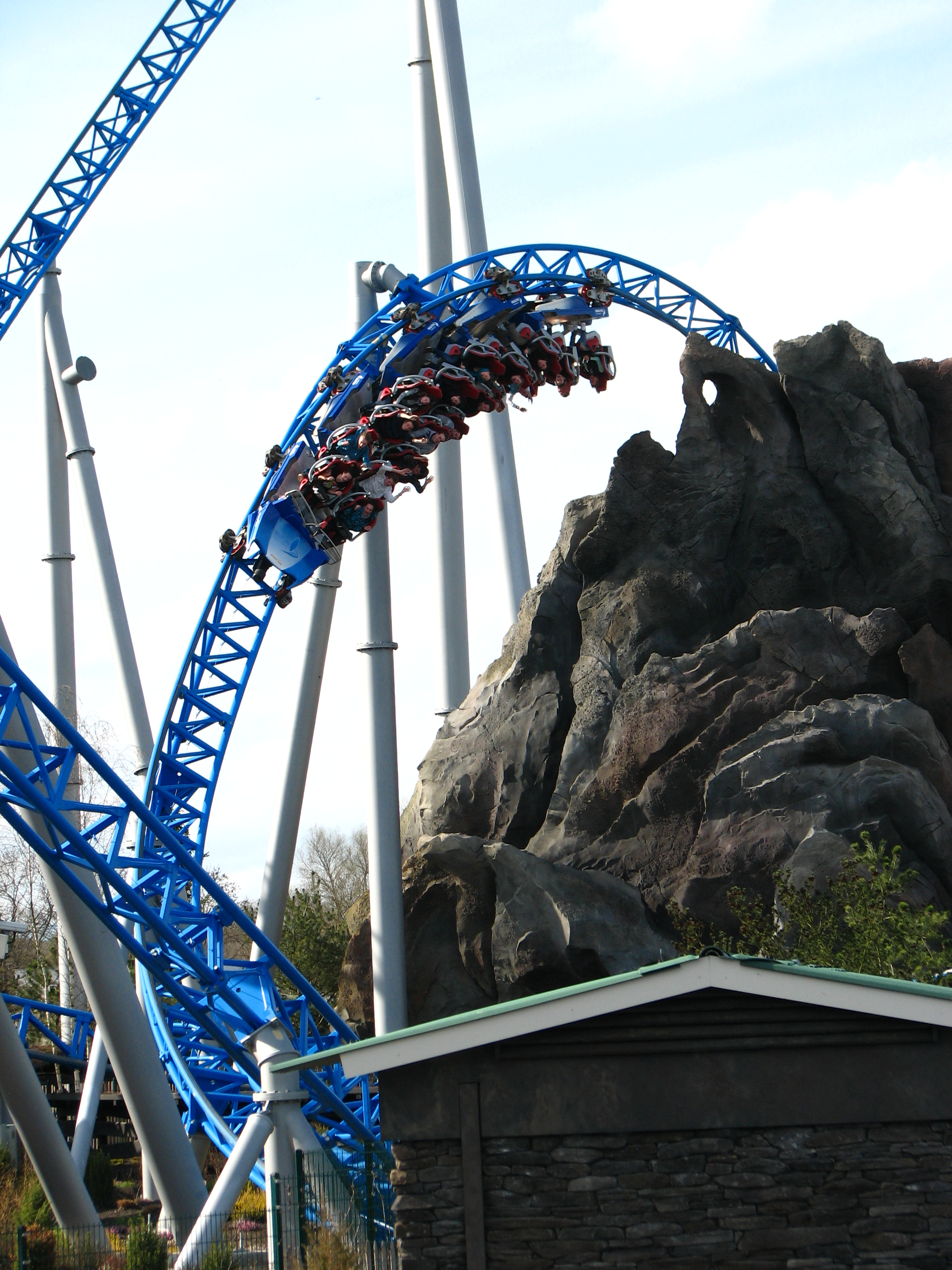 Blue Fire Megacoaster, Europa-Park, Rust, Baden-Württemberg, Germany.